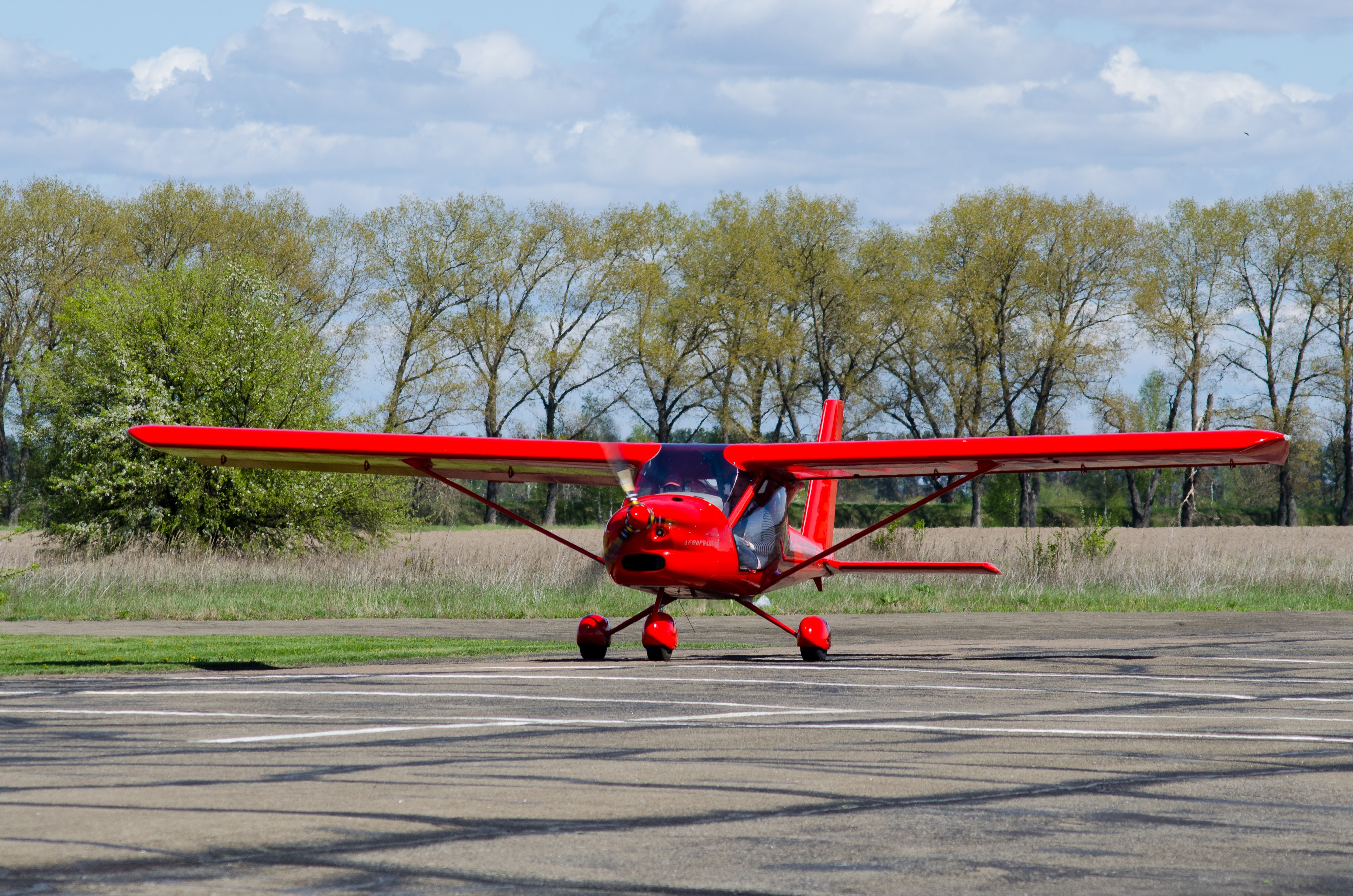 Aeroprakt A32, serial number 001 with registration UR-PAPK